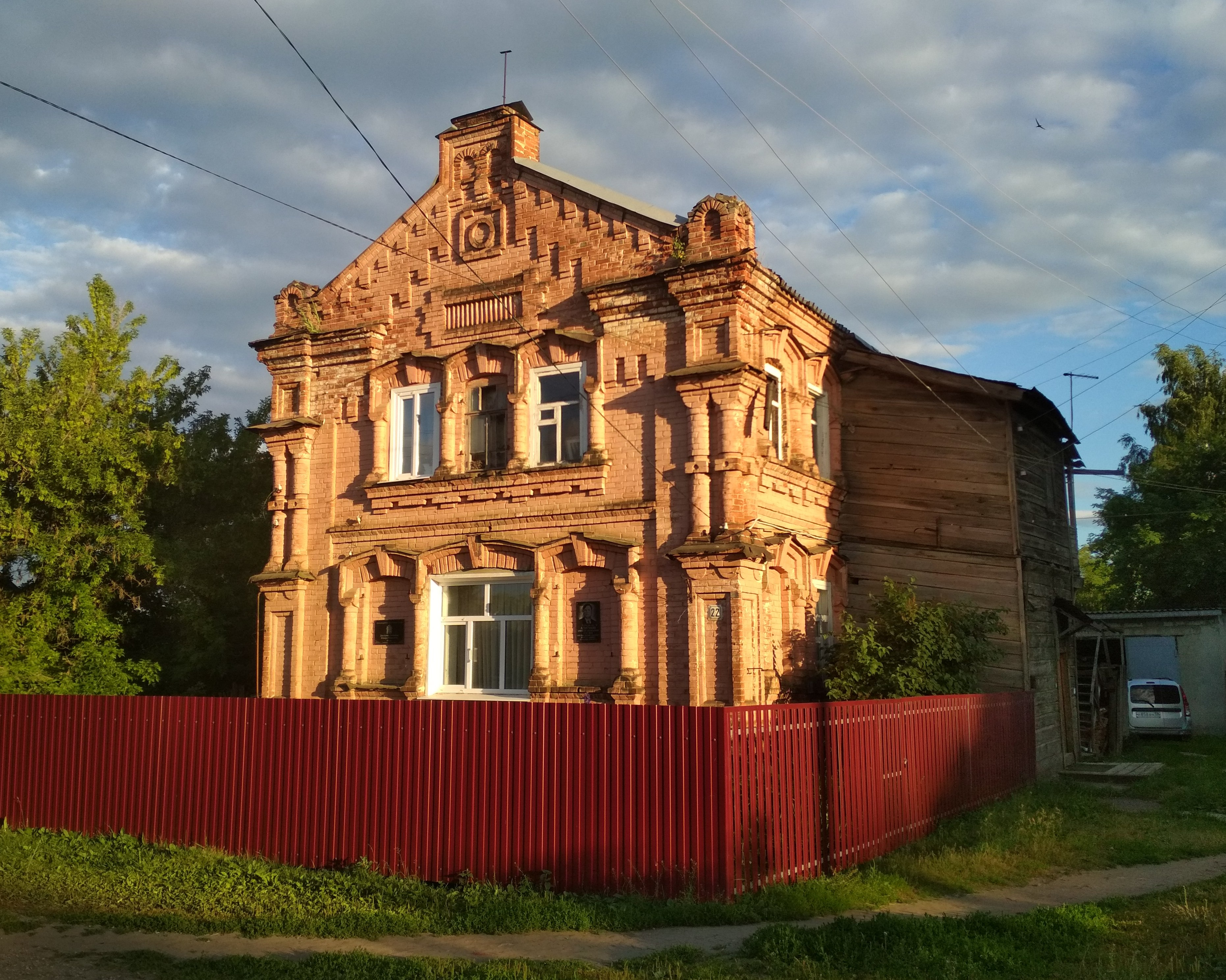 House in Nizhny Lomov, Penza region, where lived Lentulov Aristarkh Vasilyevich Russian and Soviet artist. One of the founders of the "Russian Avant-garde"